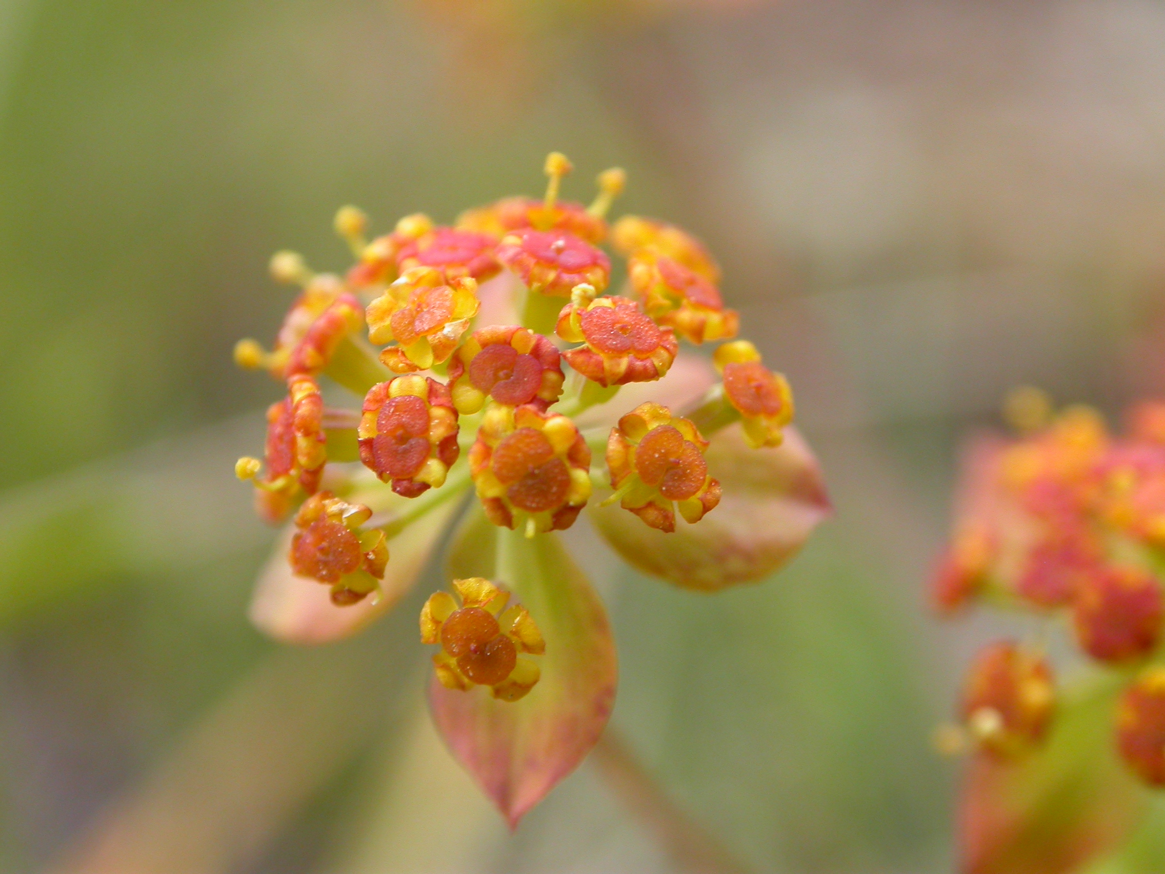 Bupleurum ranunculoides ssp. caricinum Zermatt, Riffelberg (Kanton Wallis, Switzerland), 2500 m Author: Barbara Studer – own photograph Date: 2006-08-02